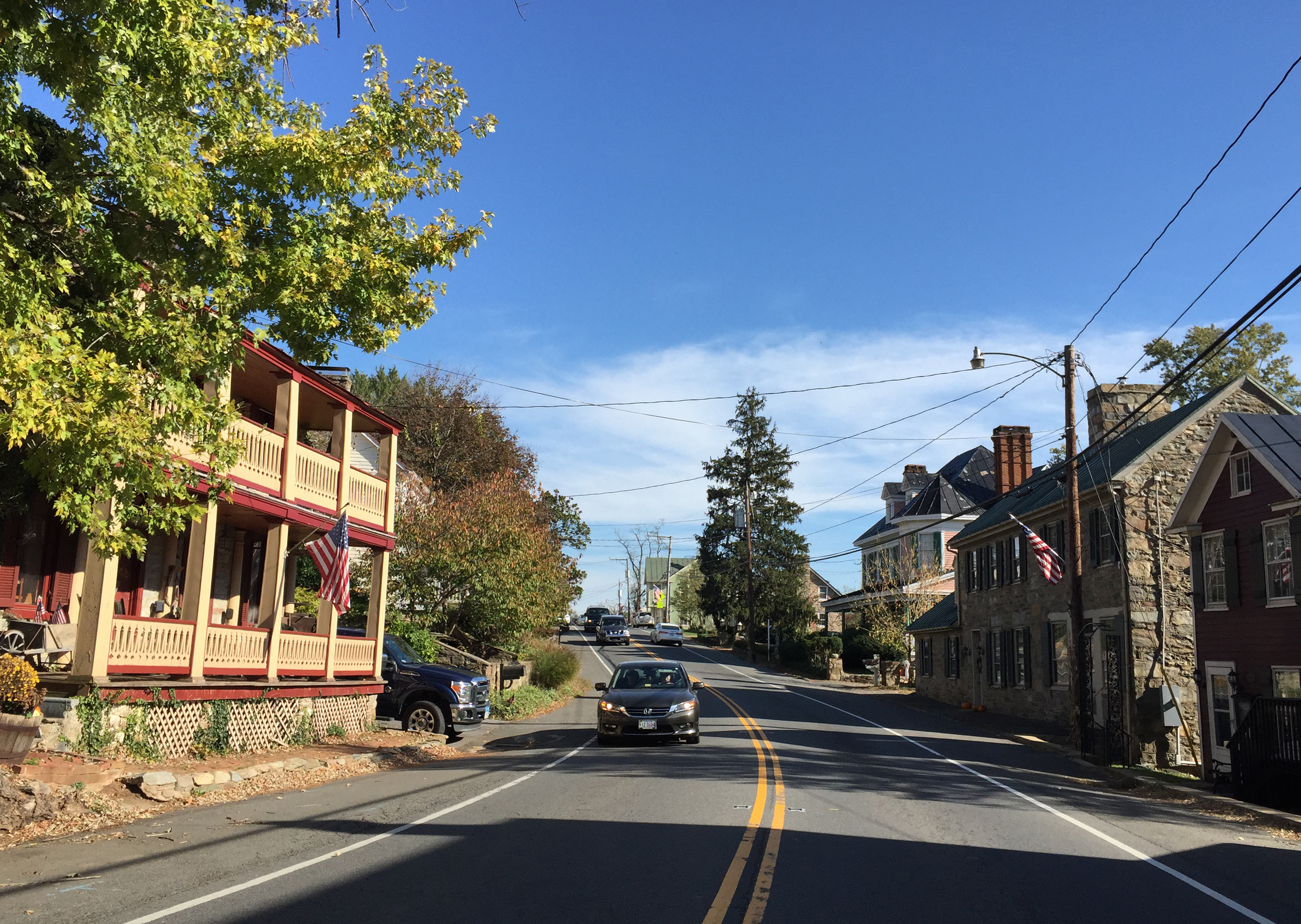 View east along Virginia State Route 9 (Charles Town Pike) between Highwater Road and Gaver Mill Road (Virginia State Secondary Route 812) in Hillsboro, Loudoun County, Virginia